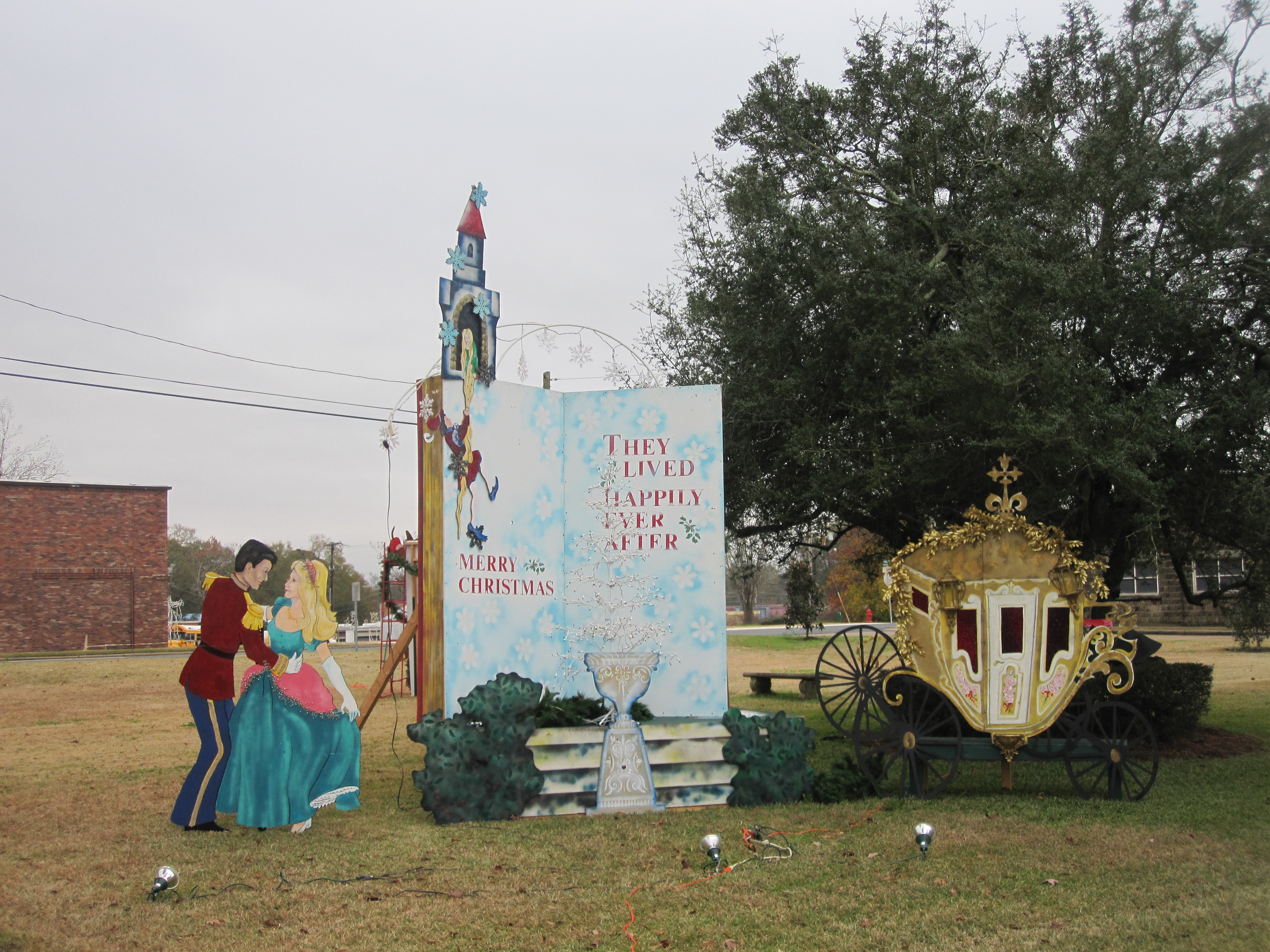 Cinderella Christmas exchibit at Minden, LA